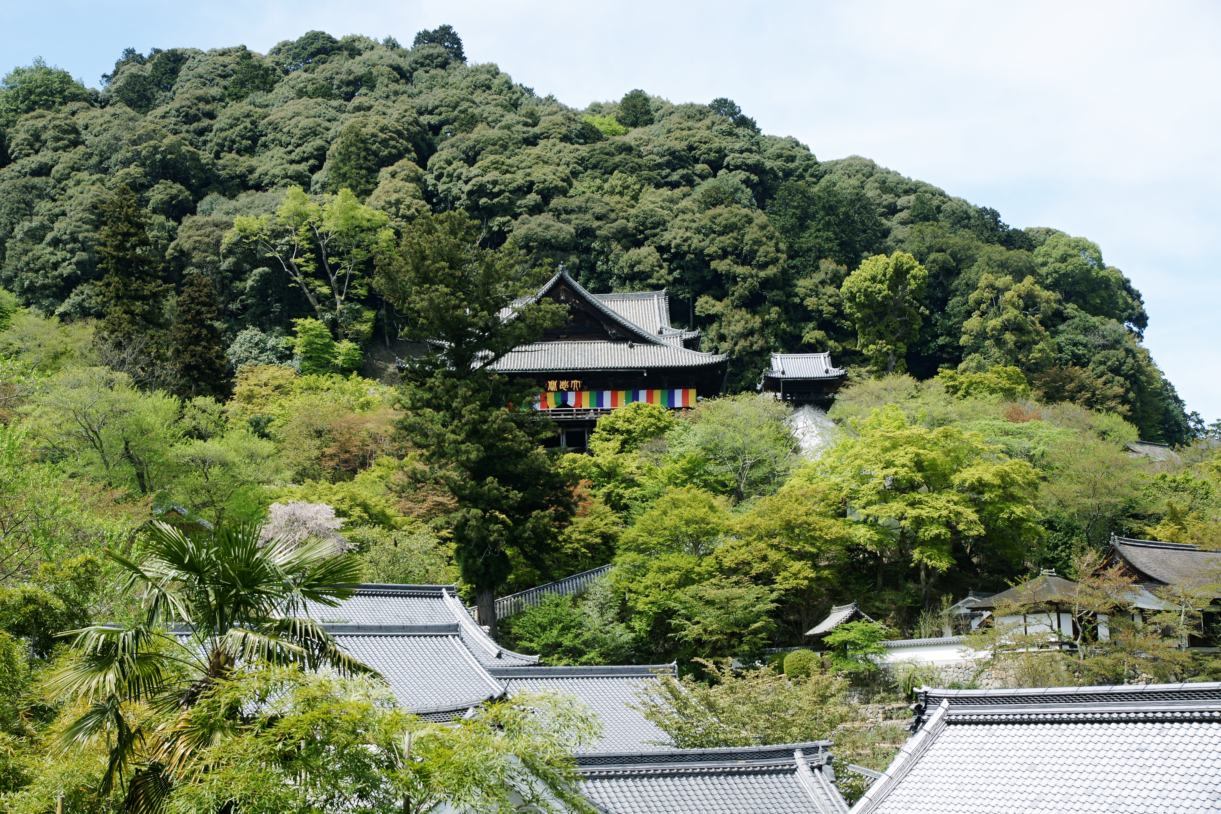 Hondo of Hase-dera Buddhist temple (Japan's National Treasure) in Sakurai, Nara prefecture, Japan